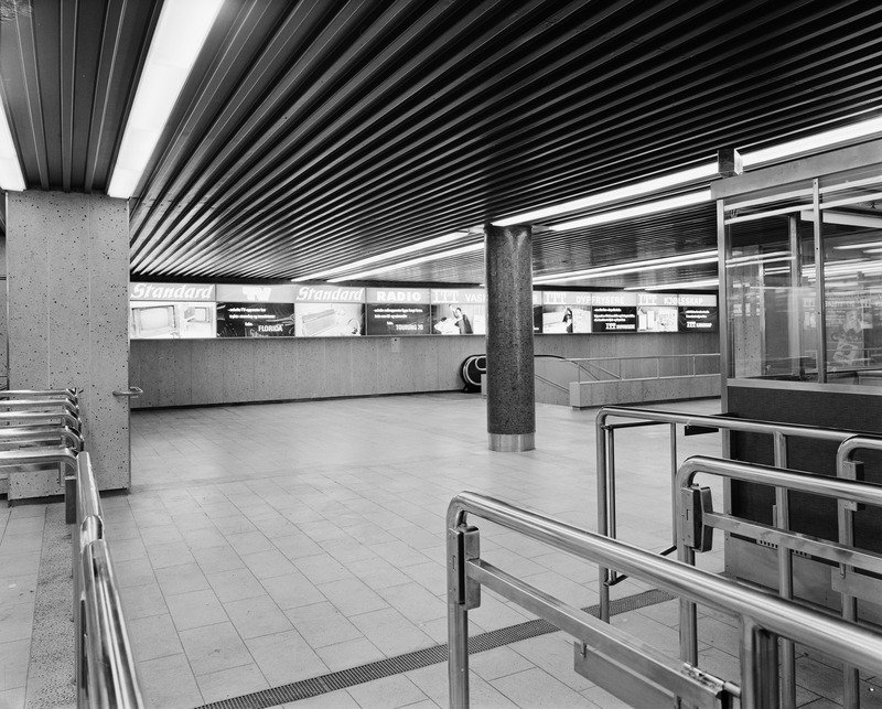 Jernbanetorget Station of the Oslo Metro